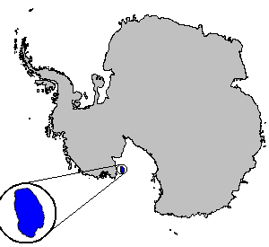 Roosevelt Island in relation to Antarctica. Created and uploaded by Keith Edkins